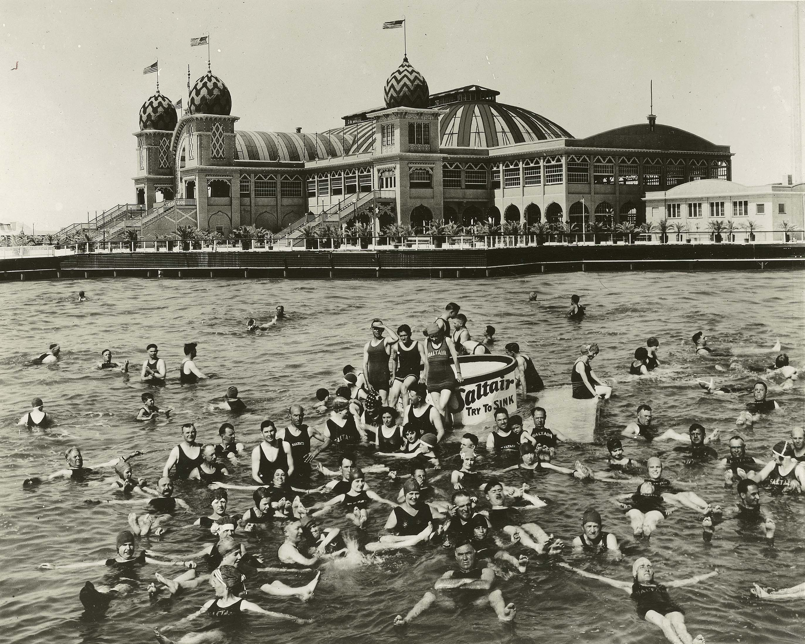 Bathers wearing Saltair bathing suits, posing by a buoy that says "Saltair, Try To Sink." Written on the back- Bathing at Saltair Beach - Utah, Savage. Back label- Wilson Photos 315 Tribune BLDG. Was. 4969. Probably photographed by Charles R. Savage.